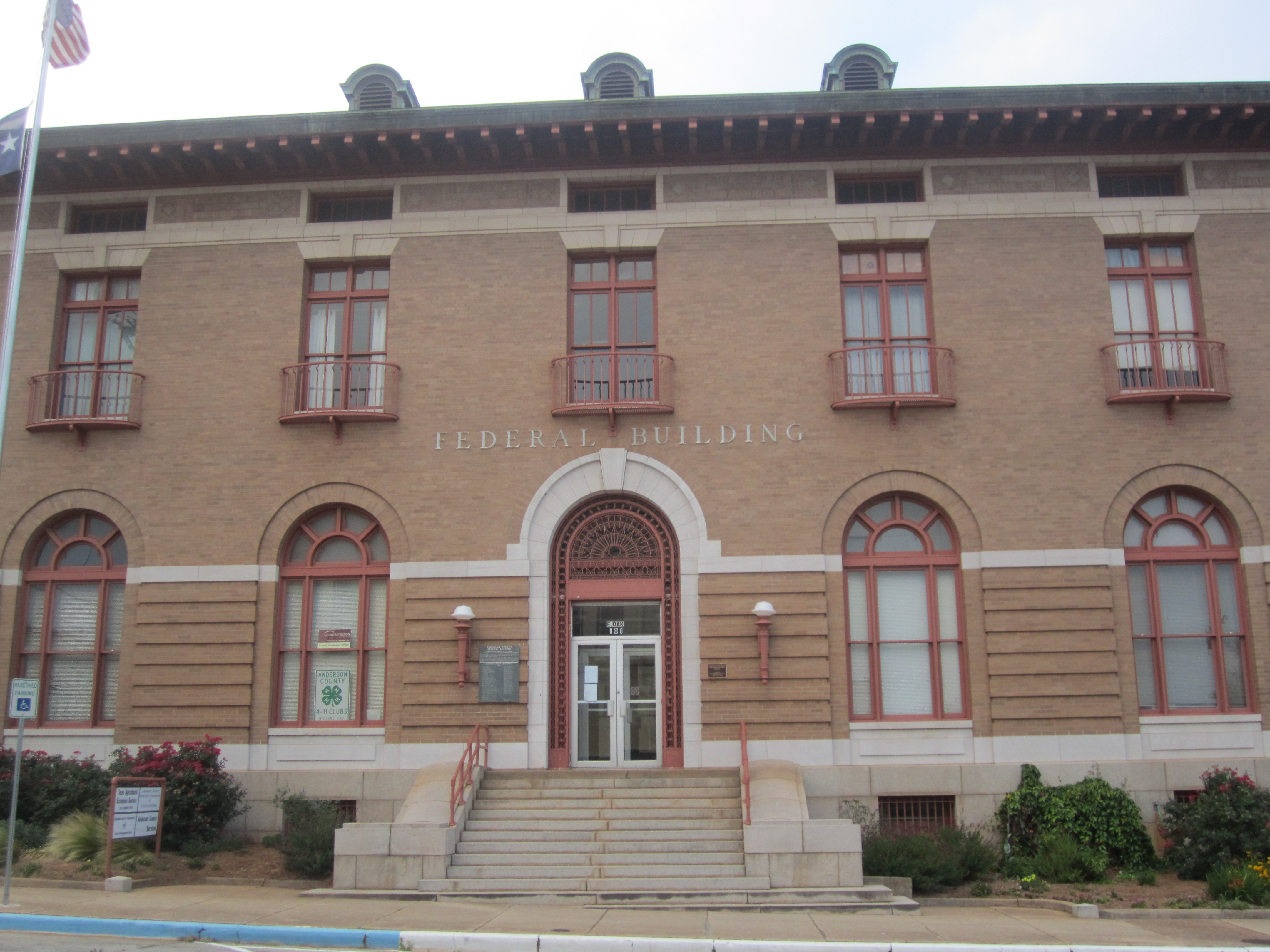 I took photo with Canon camera of Federal Building in Palestine, TX.